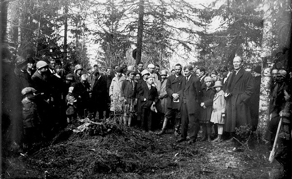 Eino Pekkala (right) speaking on the Puustellinmetsä mass grave, Helsinki, Finland.